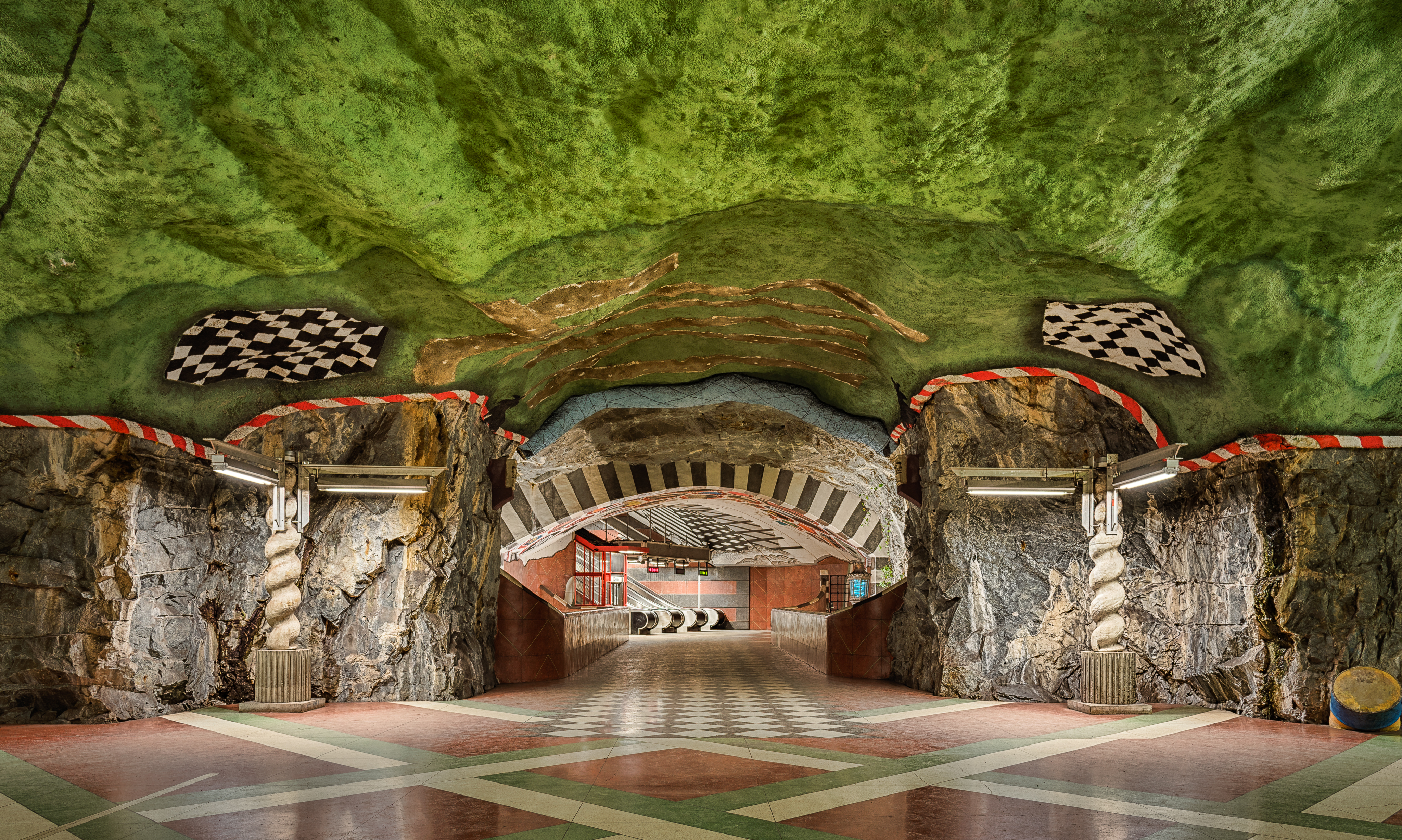 Kungsträdgården underground metro station in Norrmalm, Stockholm.